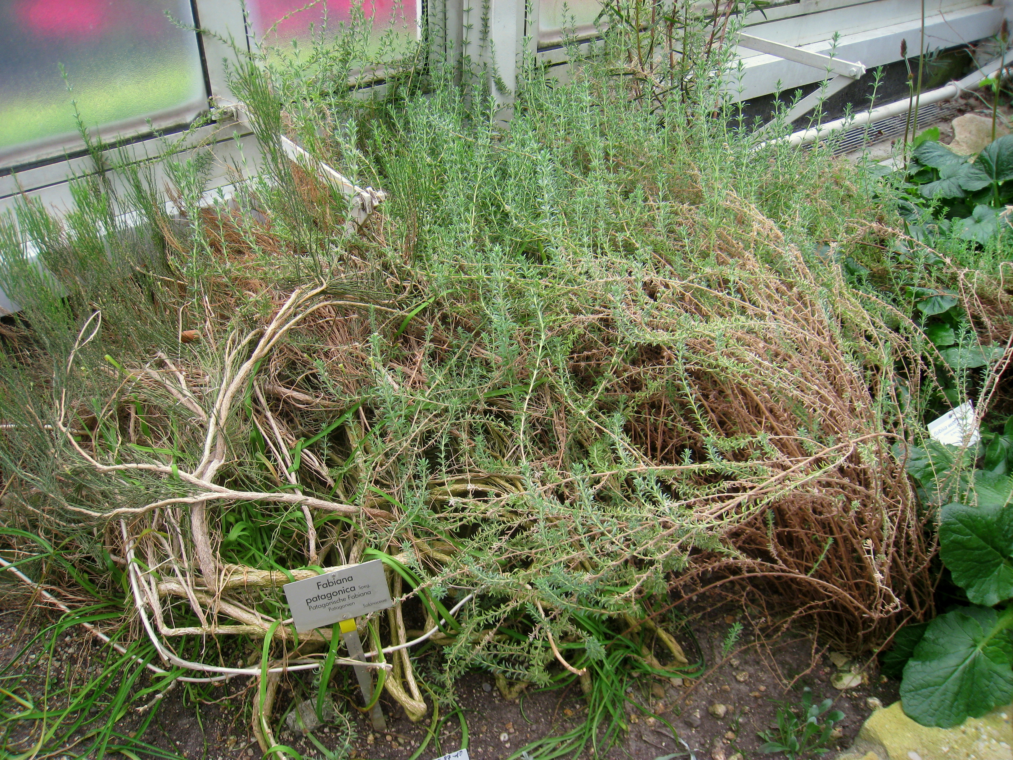 Fabiana patagonica specimen in the Botanischer Garten, Berlin-Dahlem (Berlin Botanical Garden), Berlin, Germany.